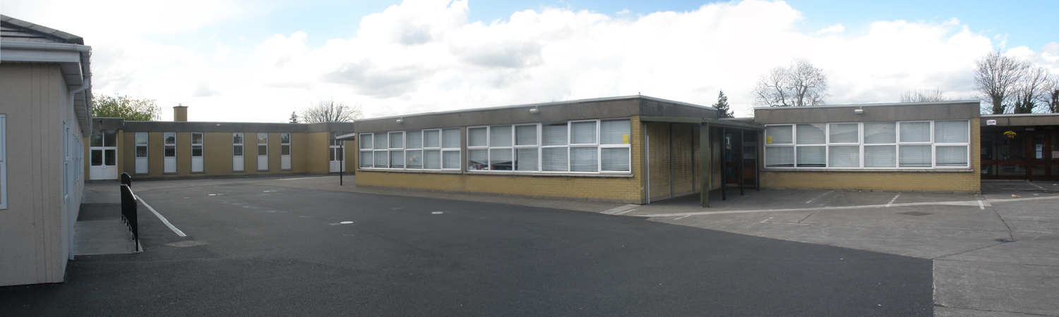 Classrooms, gym hall, and school yard at St. Pius X National School in Templeogue, Dublin. Panorama assembled from three original images.